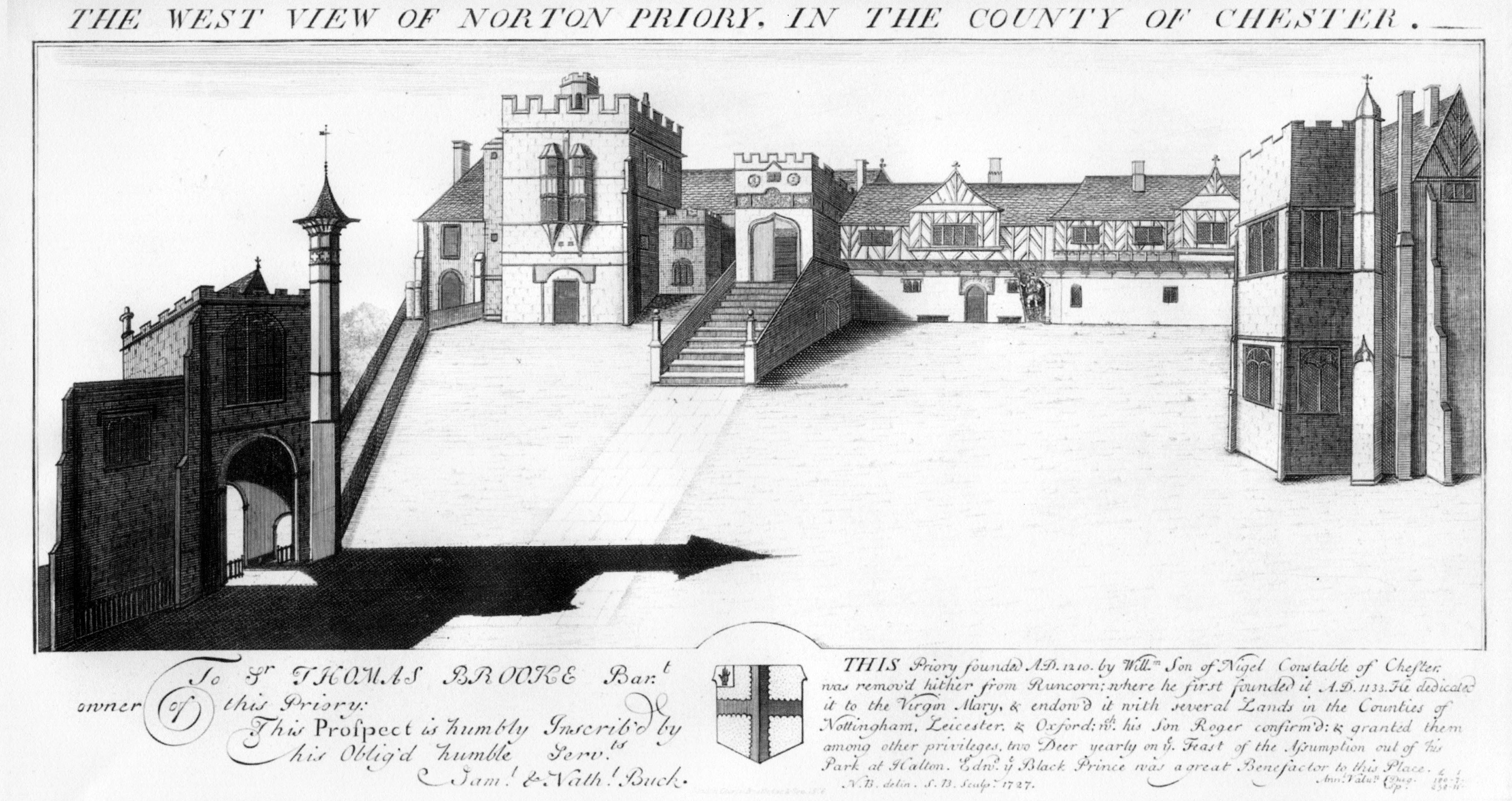 The Tudor house at Norton Priory, near Runcorn, Cheshire, England, in the early 18th century as shown in an engraving by the Buck Borthers